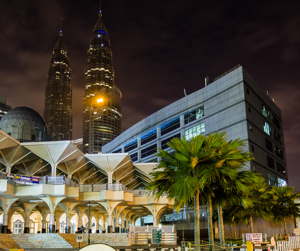 overnight at As-syakirin Mosque and with a background of KLCC light-off HDR with 7 Exposure